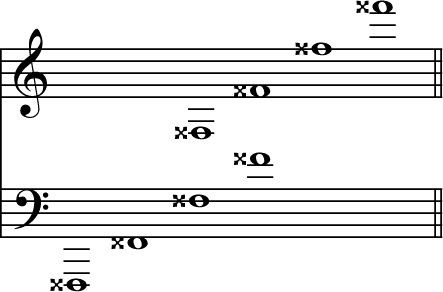 Notes, F Double Sharp